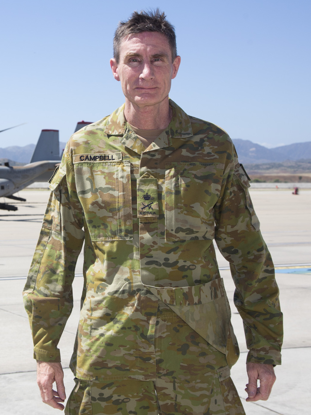 Chief of the Australian Army, Lieutenant General Angus Campbell poses for a photo in front of an MV-22b Osprey with Marine Medium Tiltrotor Squadron (VMM) 363 on the flight line on U.S. Marine Corps Base Camp Pendleton, Calif., June 12, 2017. Lieutenant General Campbell flew with VMM-363 to visit the amphibious assault ship USS America (LHA 6) to receive a tour and view the capabilities of the ship. (U.S. Marine Corps photo by Sgt. Tia Dufour/Released)